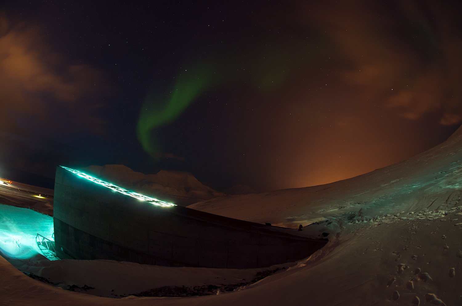 The entrance of the Global Seed Vault in Spitsbergen